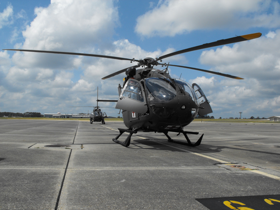 The LUH72A Lakota helicopter just after landing at its new home at Fort Polk. The LUH is replacing the UH1 Iroquois, more commonly referred to as the 'Huey.'